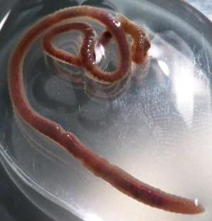 Unknown species of Lumbriculidae